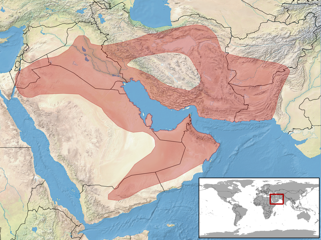 geographic distribution of Bunopus tuberculatus (Native: Afghanistan; Iran, Islamic Republic of; Iraq; Israel; Jordan; Kuwait; Oman; Pakistan; Saudi Arabia; Syrian Arab Republic; Turkmenistan; United Arab Emirates; Yemen)